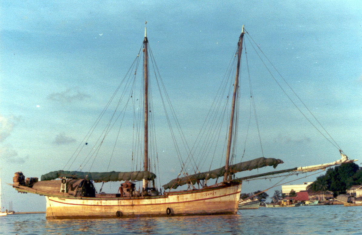 The Bedar Dapat, off loaded, after one her last journeys to Thailand to haul salt, Kuala Terengganu, 1981